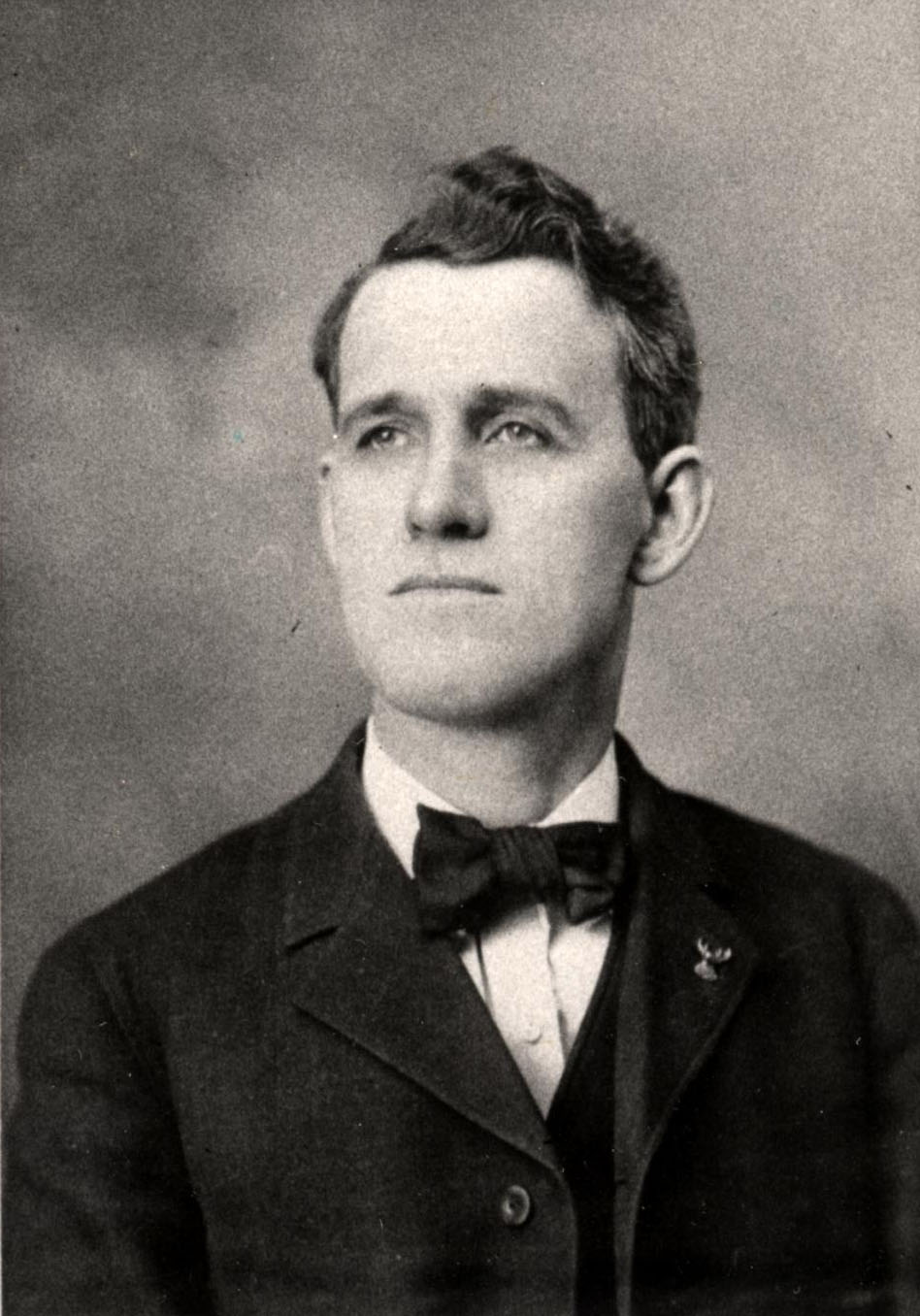 Sen A.S. Ruth